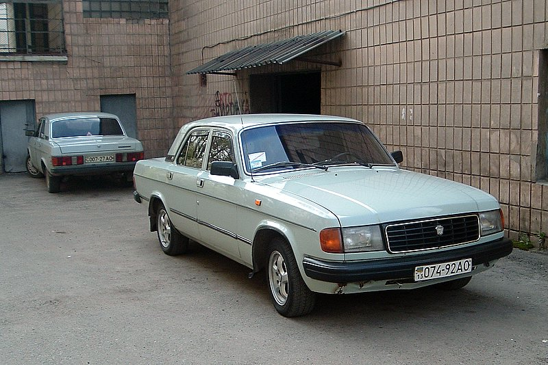 Description: GAZ 31029 Volga Date: 26/04/2005 Author: Alex Chupryna License: GFDL